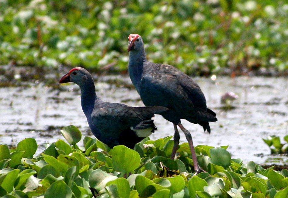 Purple Swamphen (Porphyrio porphyrio) photographed in Vembanad Lake, Kottayam District, Kerala, India.